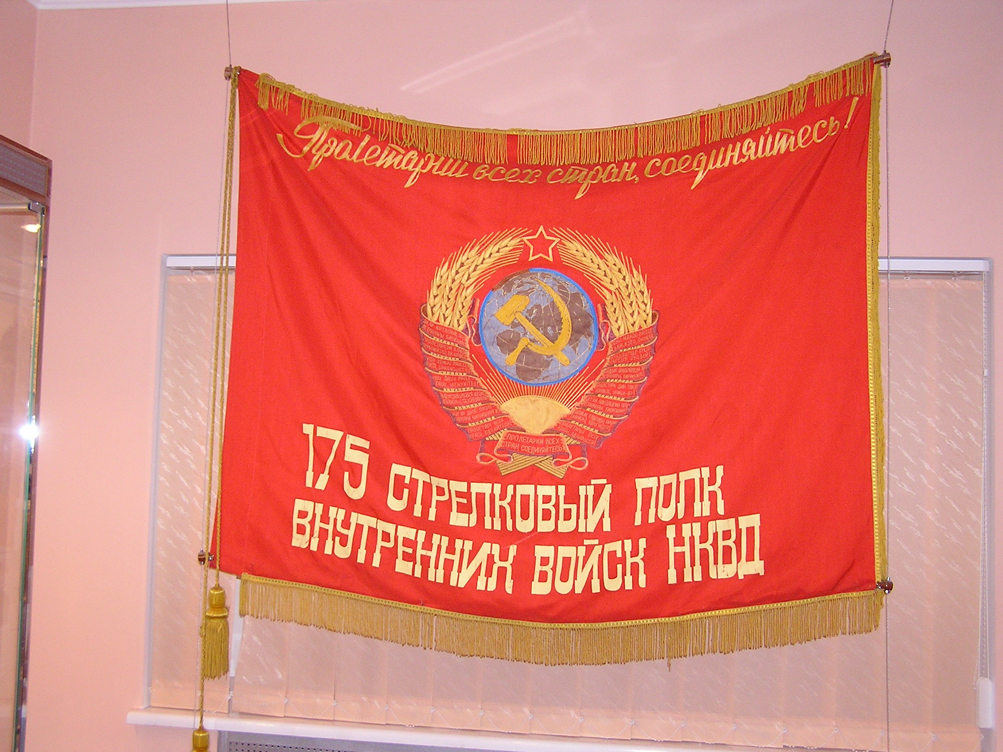 Museum of the History of Donetsk militsiya